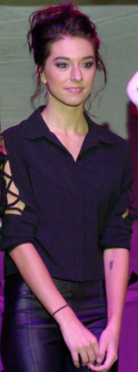 Christina Grimmie in December 2014.